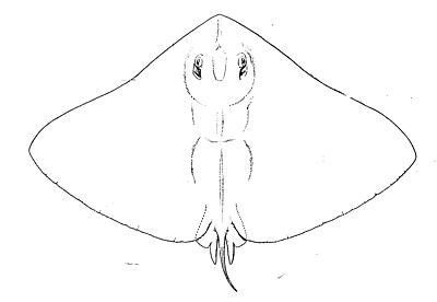 Smooth butterfly ray (Gymnura sp.)